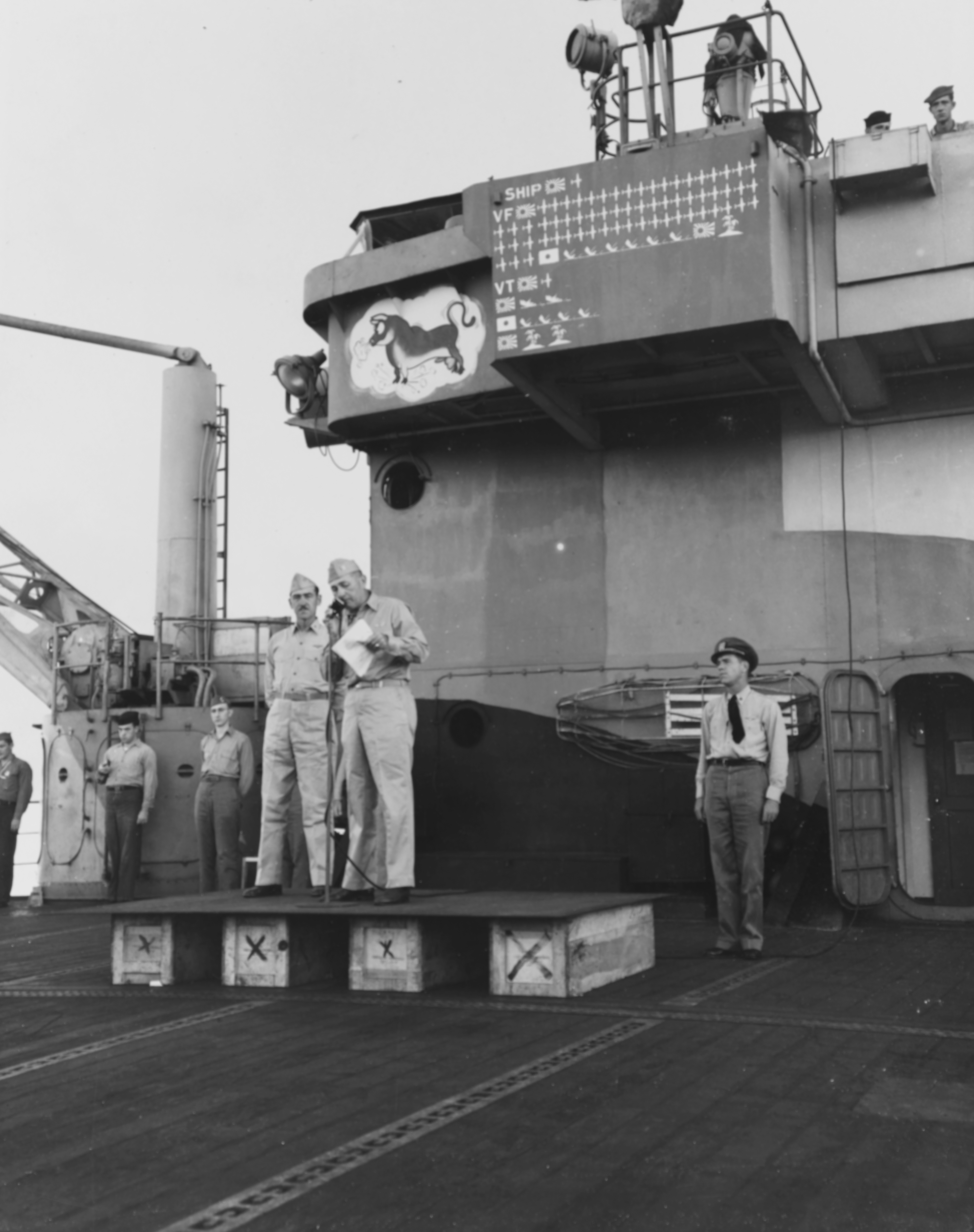 USS Cowpens (CVL-25): Captain George H. DeBaun (center) relieves Captain Herbert W. Taylor (left) as the carrier's Commanding Officer, in ceremonies held by her island in November 1944. Commander Hugh R. Nieman is looking on, at right. The ship's insignia and scoreboard are painted on her bridge wing.